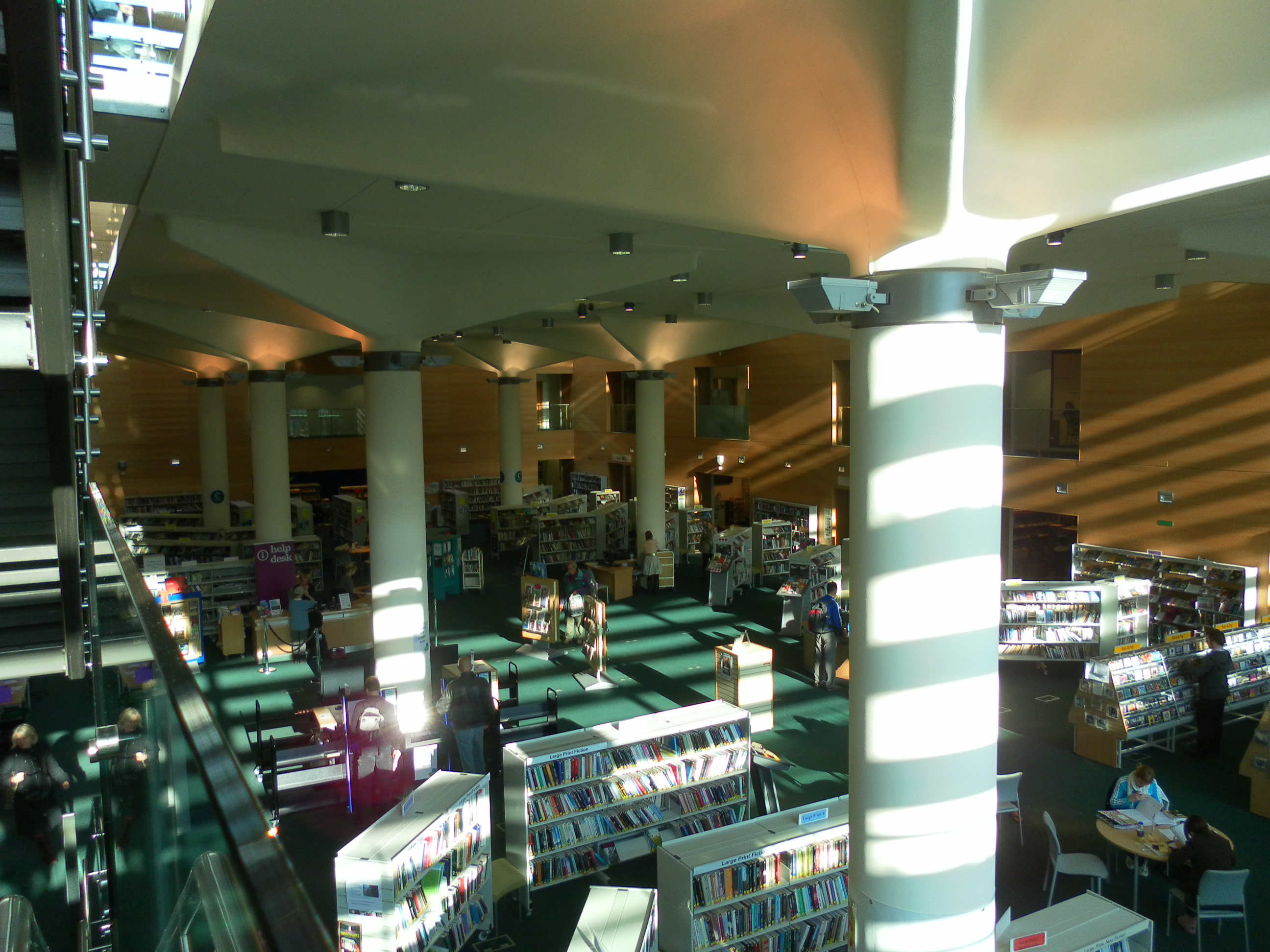 Interior view across Jubilee Library, Brighton, City of Brighton and Hove—opened in 2005.